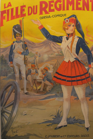 La fille du regiment 1910 poster